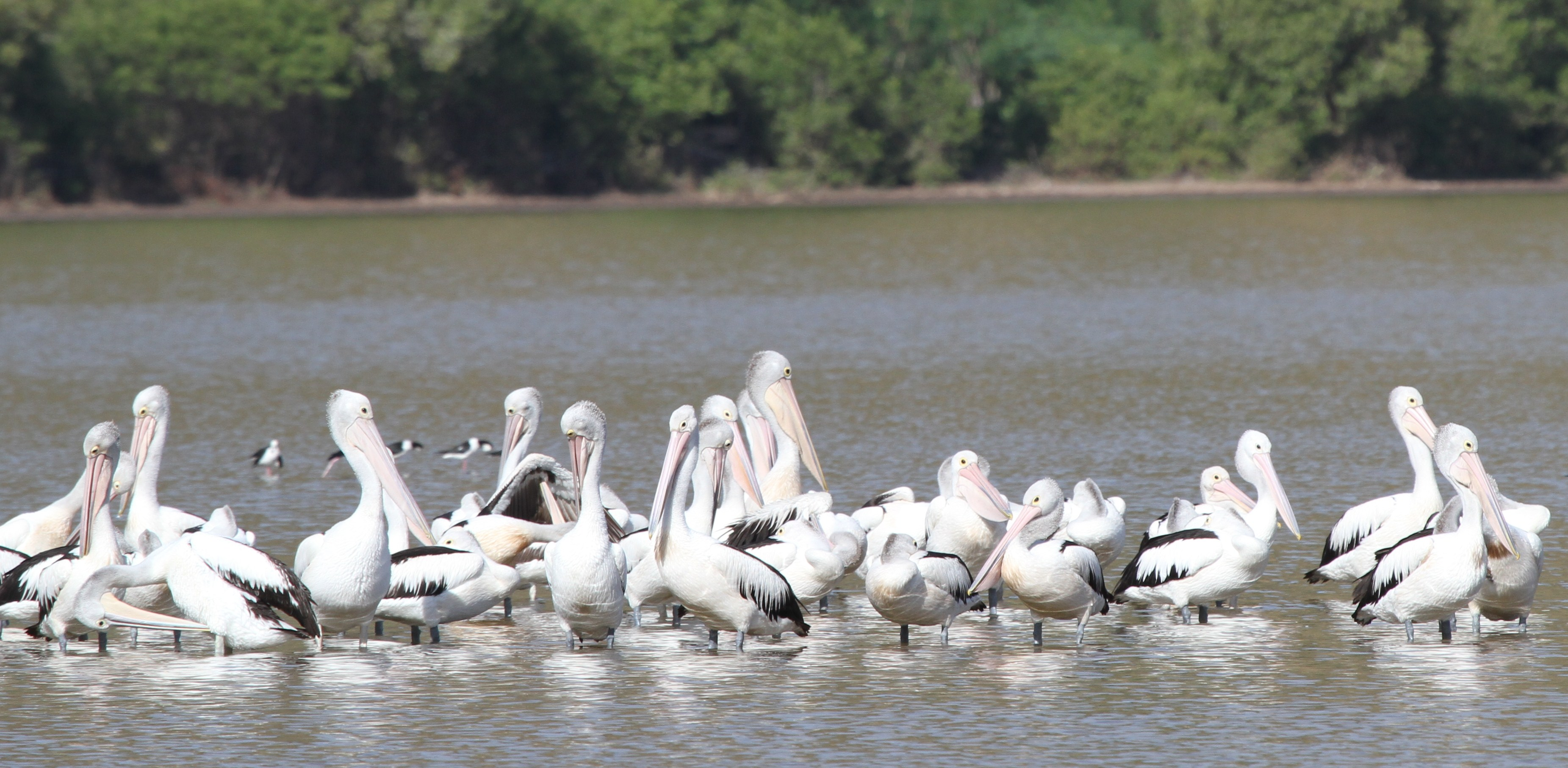 A flock of Australian Pelican- a regular visitor to Timor-Leste in small groups of up to 200 birds, especially on wetlands near Dili and Lake Ira Lalaro